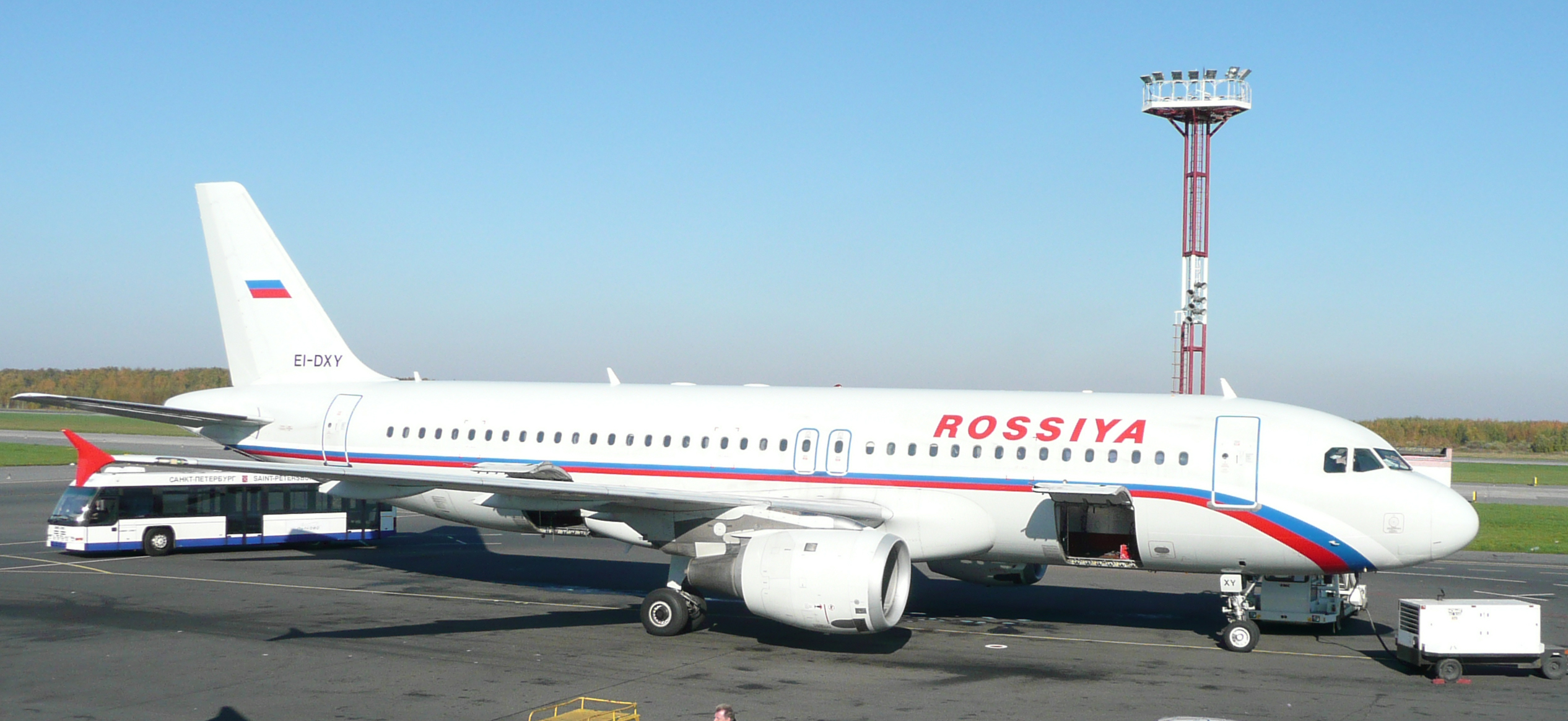 Rossiya Airbus A320-212 in Pulkovo (St. Petersburg)